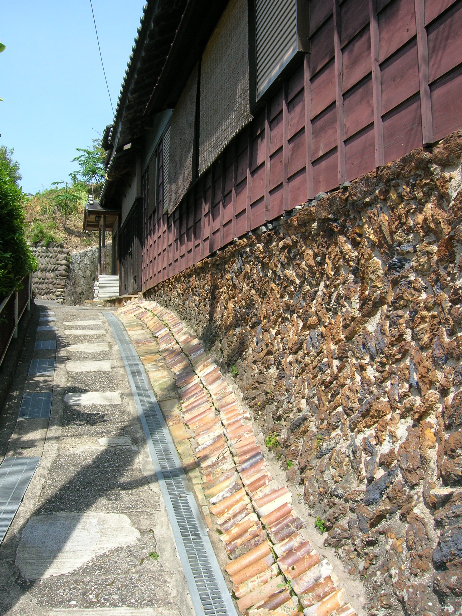 Kamagaki no Komichi. Loc: Seto city, Aichi Prefecture, Japan. 窯垣の小径・鬼板が使われた壁。 撮影場所 愛知県瀬戸市